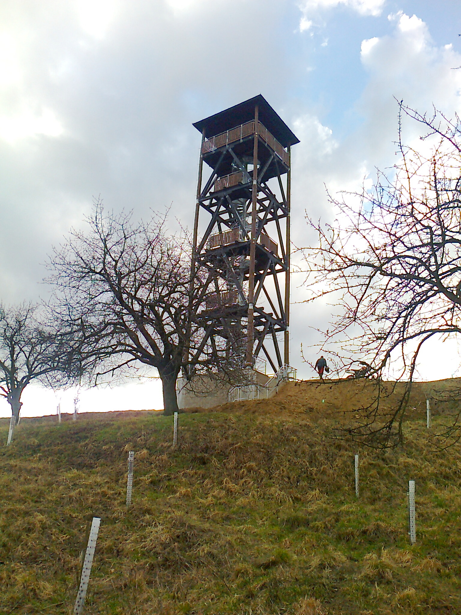 Polešovice, Uherské Hradiště District, Czech Republic.